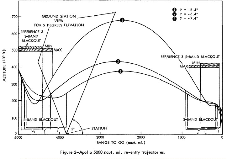 Apollo re-entry trajectories